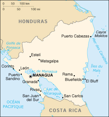 Map in French of Nicaragua